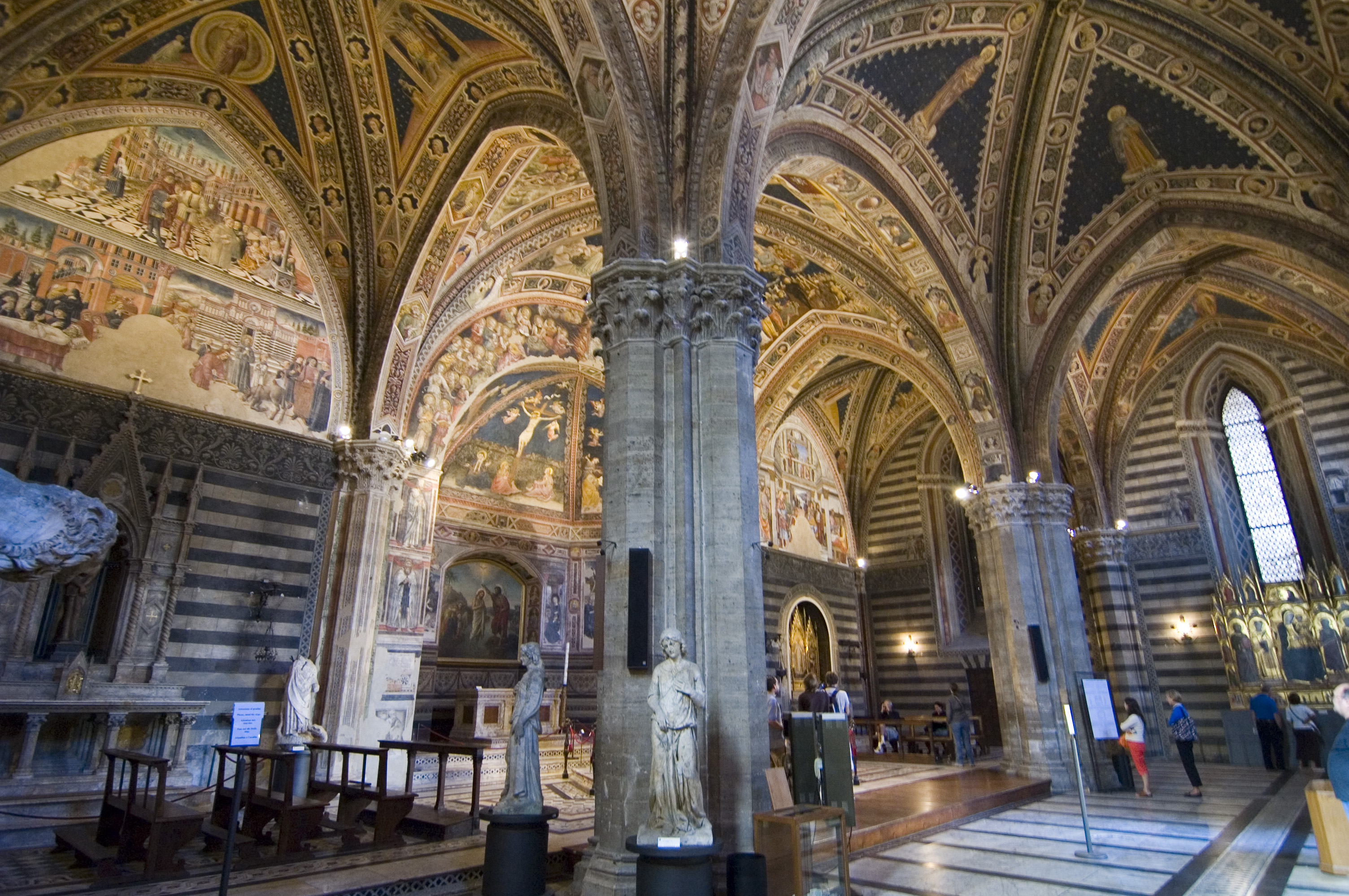 see above